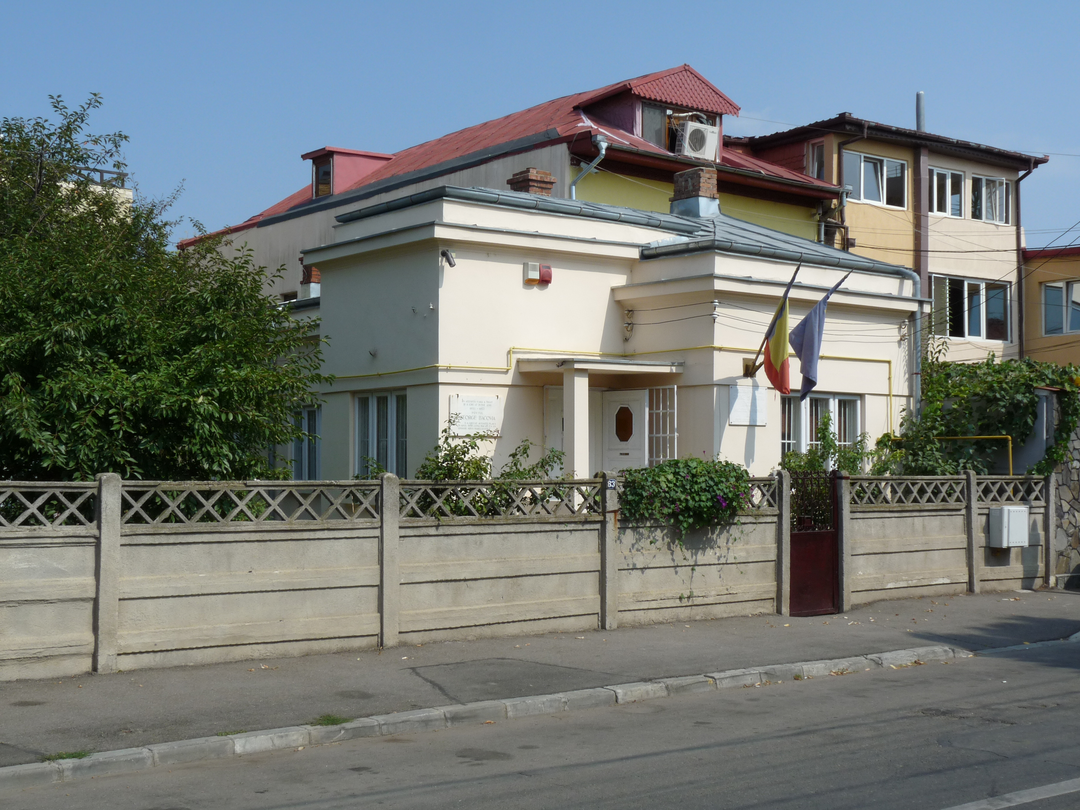 George Bacovia memorial museum in Bucharest, RomaniaRomână: Muzeul memorial George Bacovia din București, România